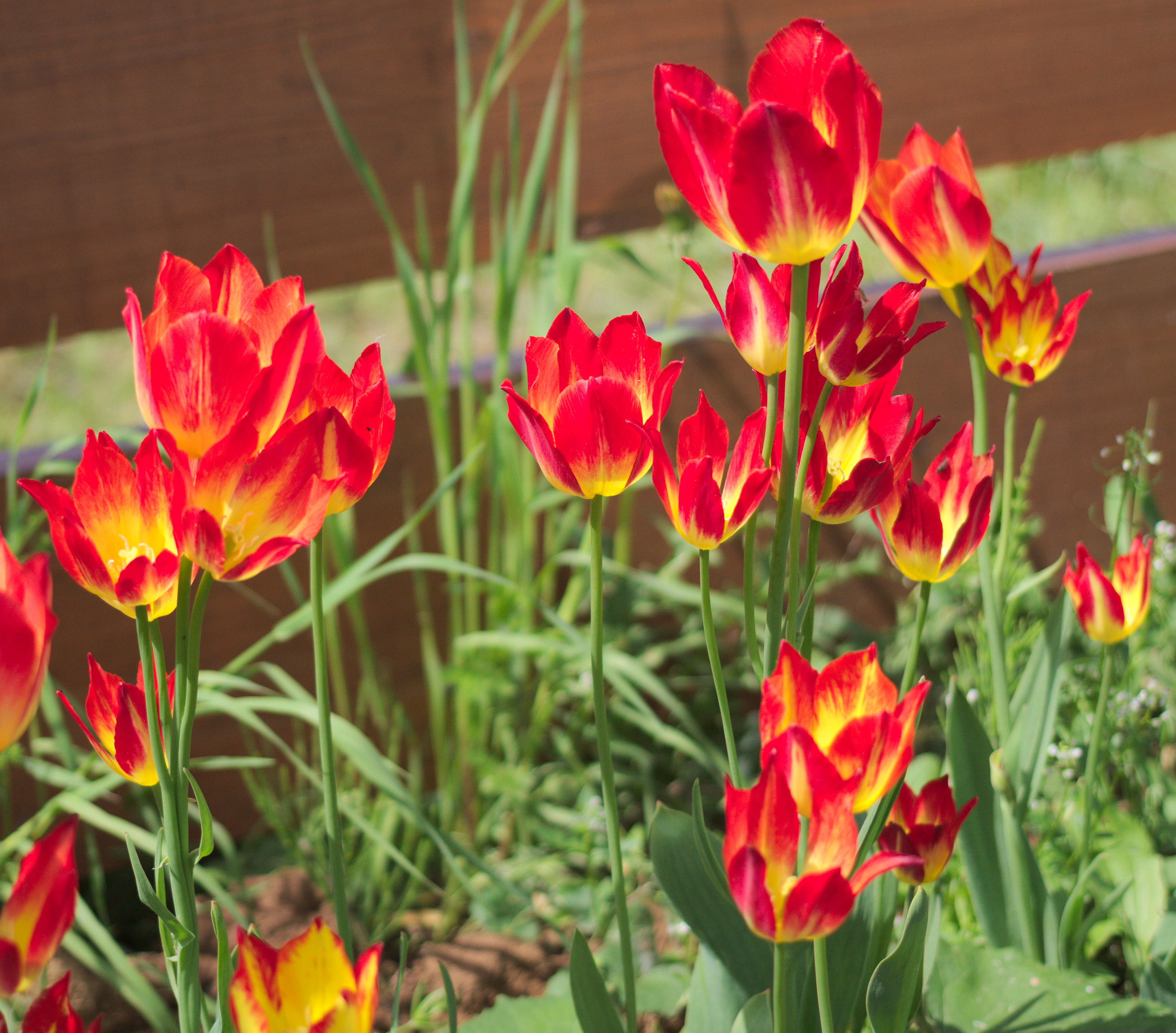 Multiflowering late tulip 'Florette' (in fact, it's the most late in my garden). It looks surprisinlgly similar to the taller T. praestans varieties.